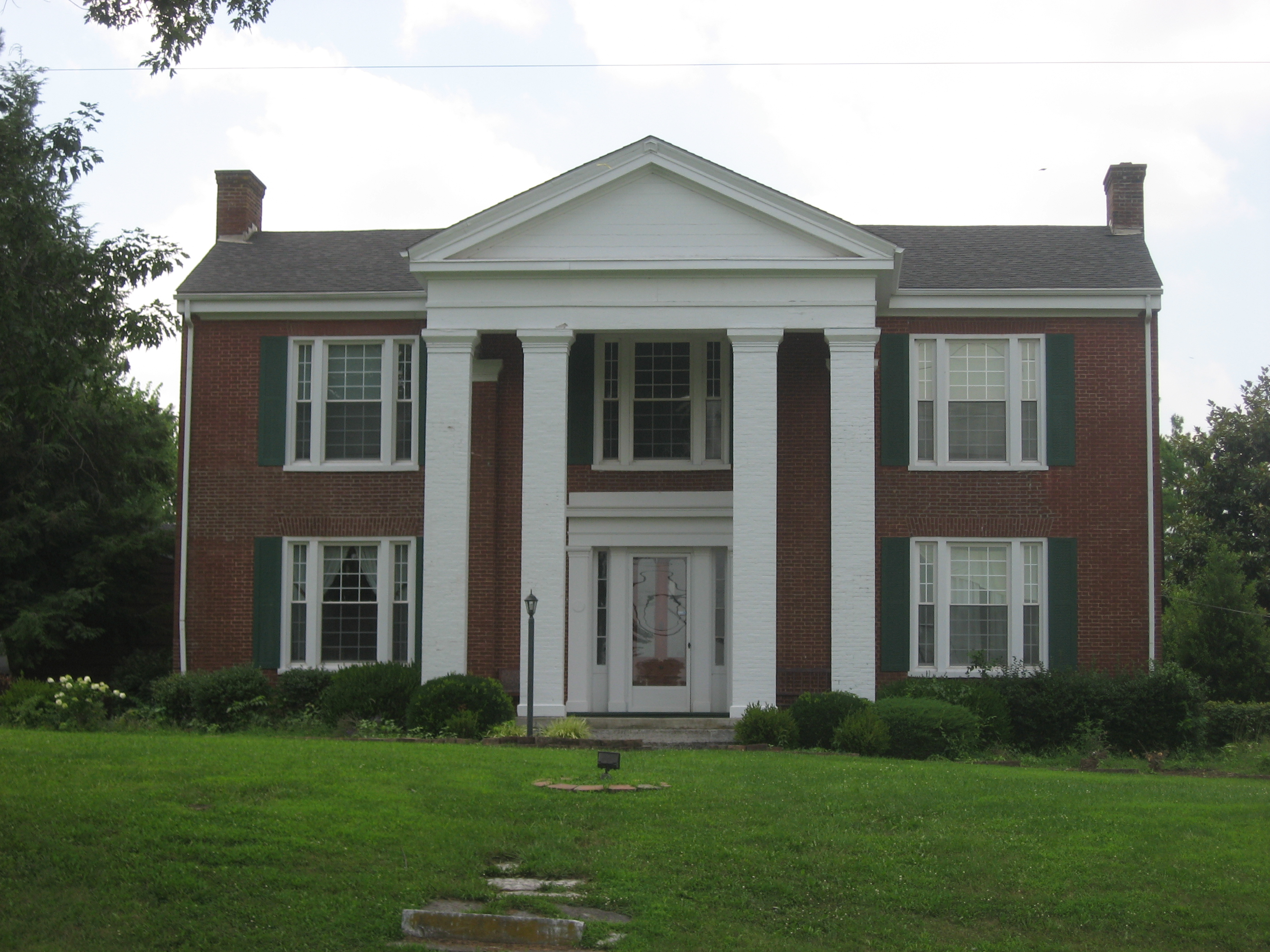 Roadside view of Butler's Tavern, located along Danville Road south of Nicholasville in Jessamine County, Kentucky, United States. Built in 1800, it is listed on the National Register of Historic Places.